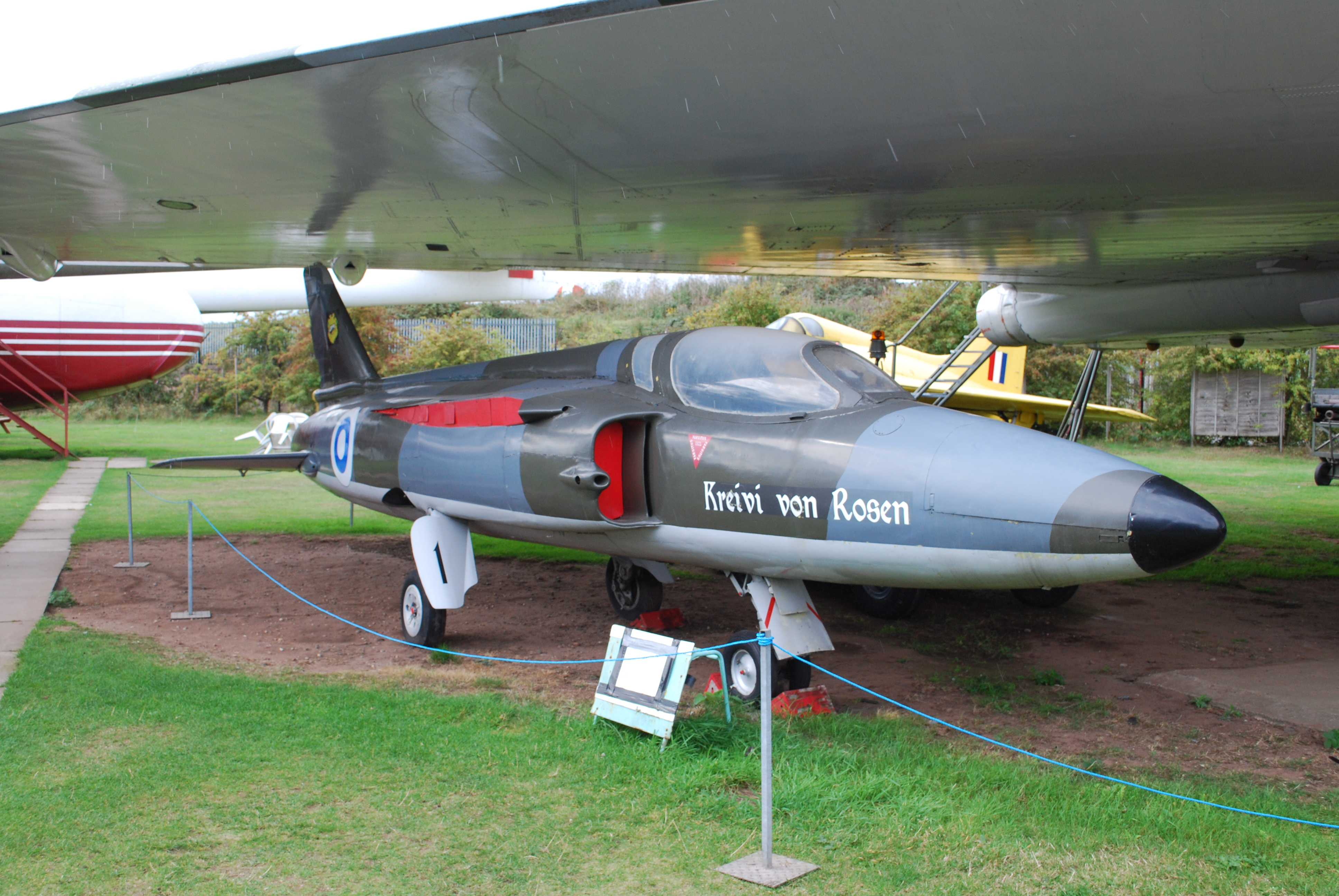 Folland Gnat F.1. This particular aircraft was used as a test airframe. It was received without wings and the museum are scratch building a new pair. It is in the markings of the Finnish A.F. At the Midland Air Museum, 9/11.